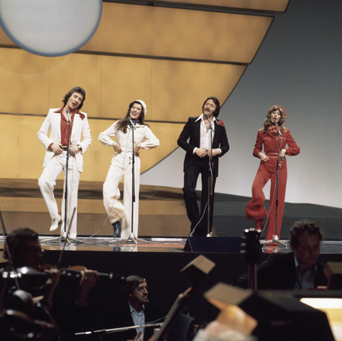 Brotherhood of Man at a rehearsal for the Eurovision Song Contest 1976.